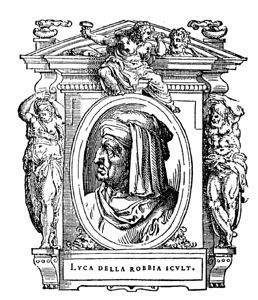 Illustratio from "Le Vite" by Giorgio Vasari, edition of 1568. For the artist portrayed see filename